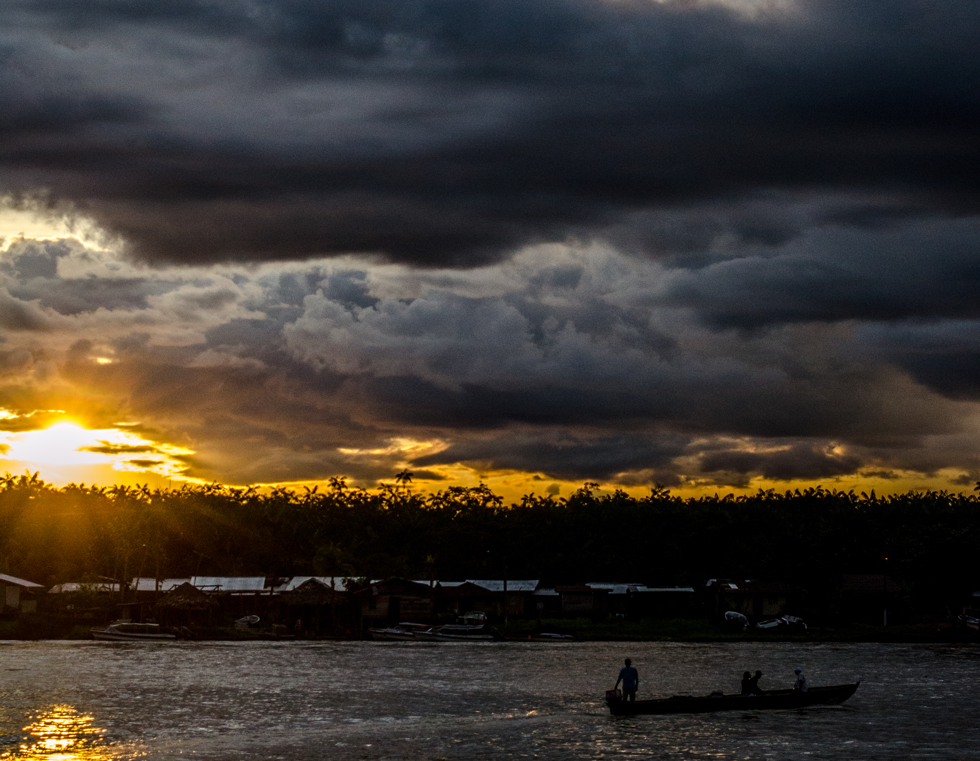 Quibdó, Choco